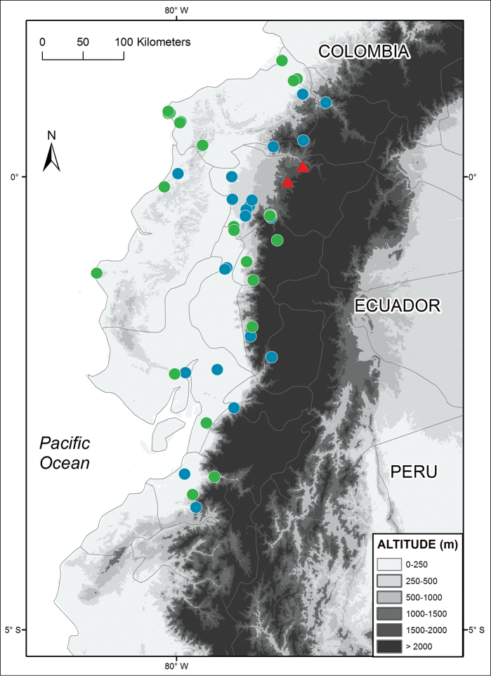 Distribution of Alopoglossus viridiceps sp. n. (triangles) and its sister species Alopoglossus festae (circles) in Ecuador. Locality data for Alopoglossus festae was taken both from the literature (blue circles; Almendáriz and Carr 2012; Köhler et al. 2012) and museum specimens (green circles; see Appendix).